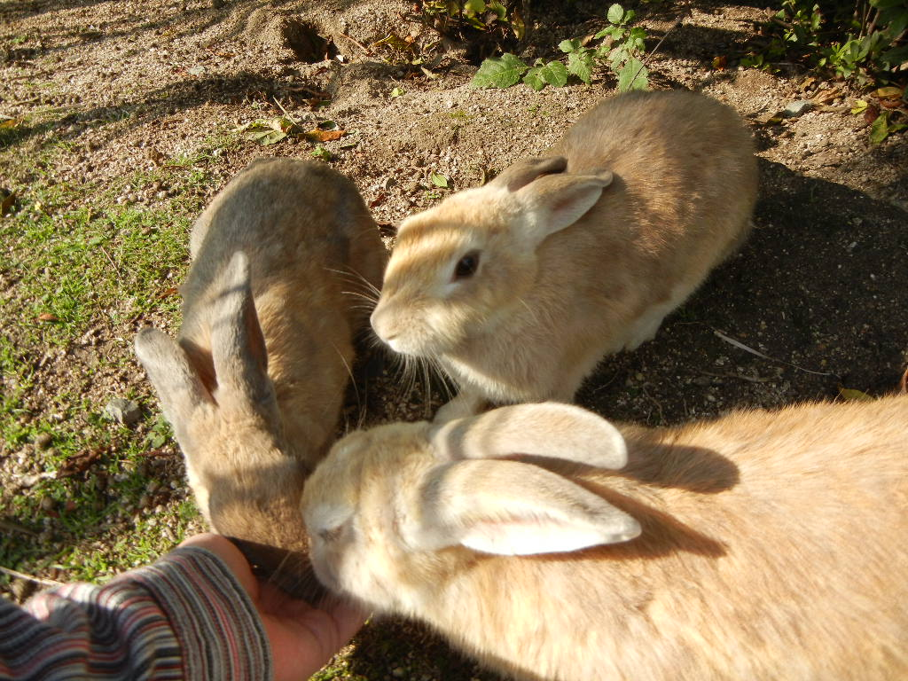 Okunojima-rabbit. 広島県竹原市大久野島にいる野生のウサギ, Takehara.